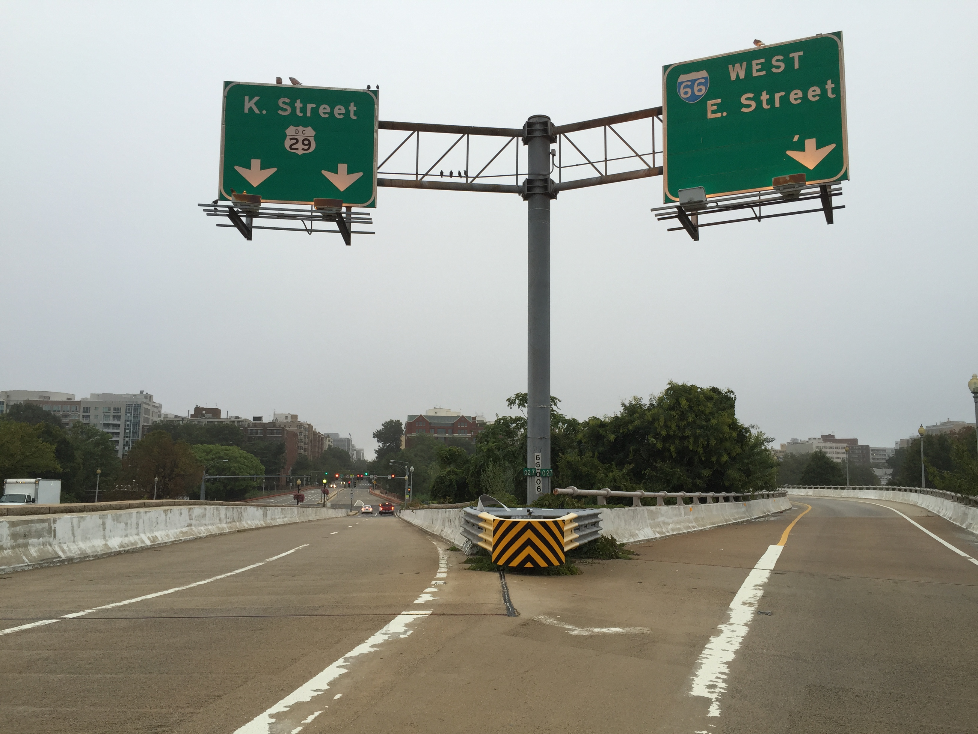 View north along U.S. Route 29 (west along the Whitehurst Freeway and K Street) at the eastern end of Interstate 66 (Potomac River Freeway) in Washington, D.C.